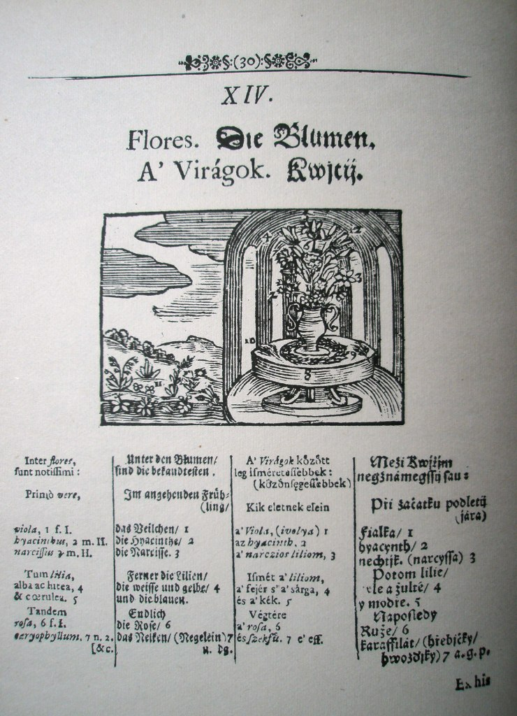 Orbis pictus by Comenius in four languages, chapter on flowers